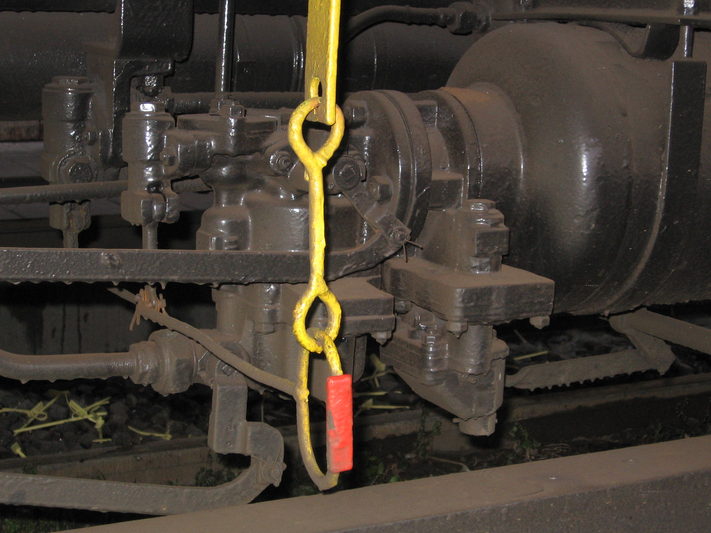 Wagon of Česká pošta (Czech Post) - from left brake release, distributor, valve DAKO-D for brake weight changing (empty-load), auxiliary reservoir